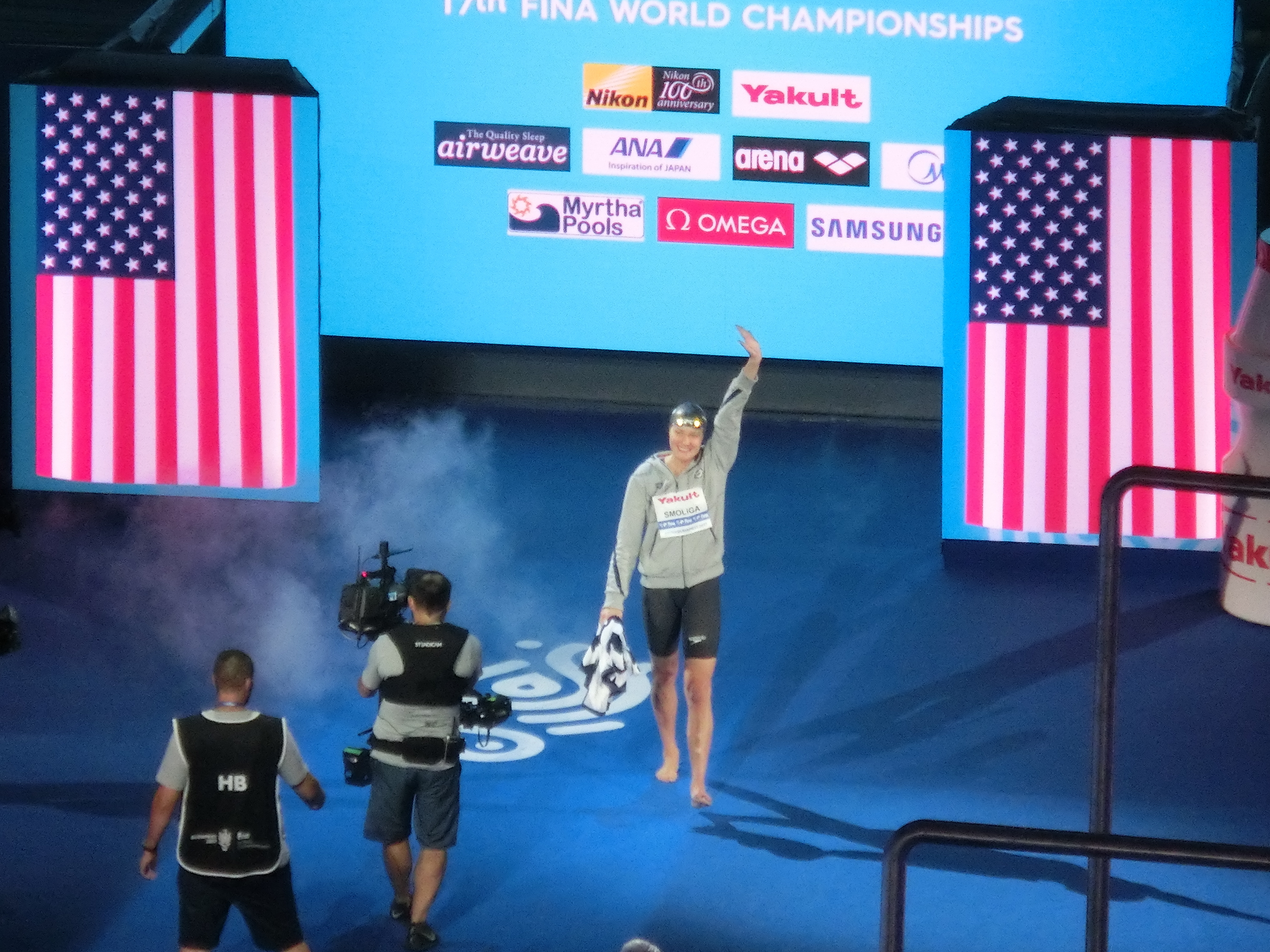 FINA World Championships, Budapest, 2017-07-25, 100m backstroke final, Olivia Smoliga (USA)